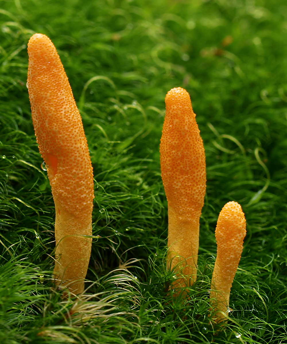 Scarlet Caterpillarclub (Cordyceps militaris)